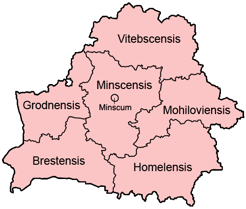 Map of the provinces of Belarus in Latin. Made by Unomano